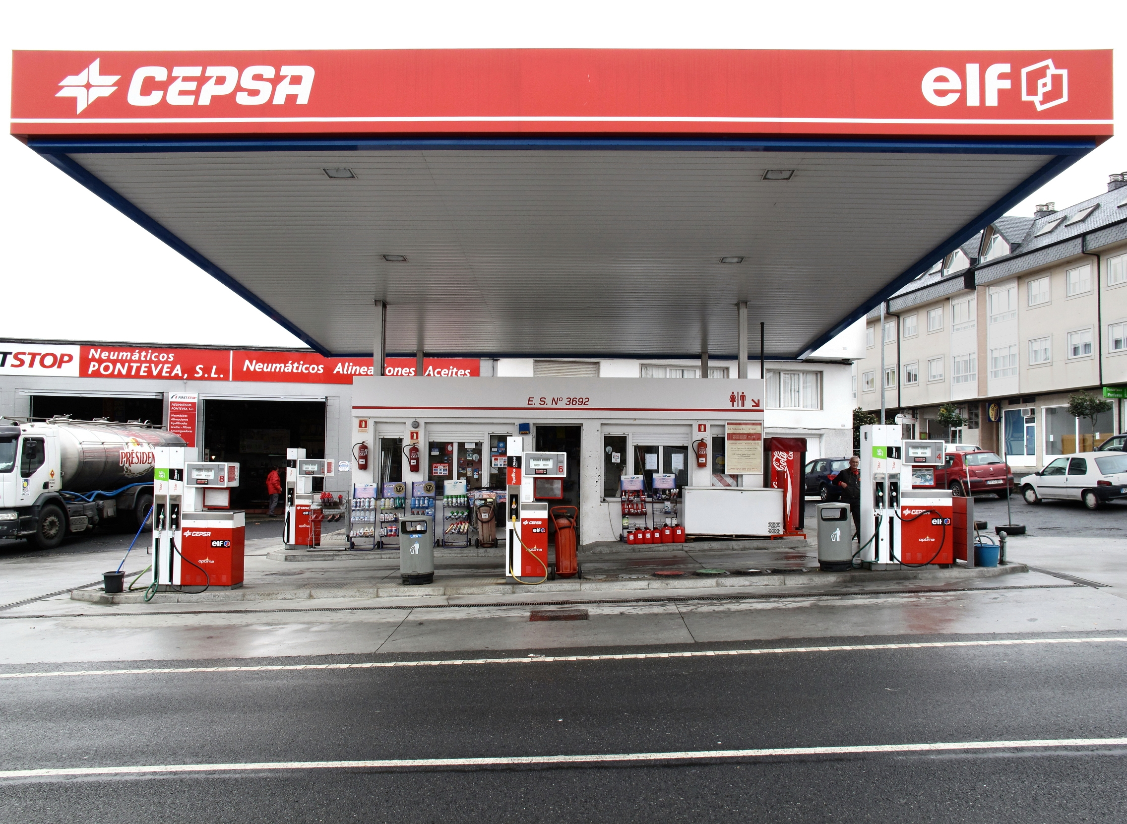 Petrol station in Pontevea, Teo, GaliciaGalego: Gasolinera de Pontevea, Teo, Galiza